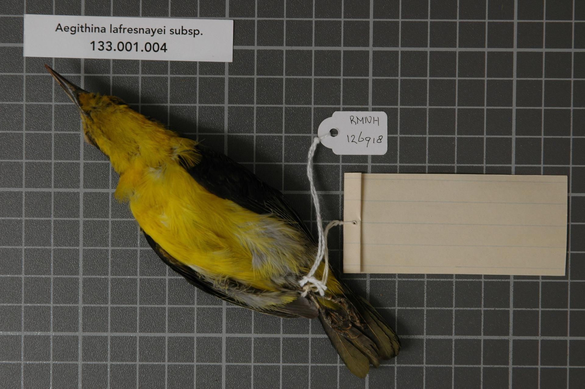 Aegithina lafresnayei subsp.